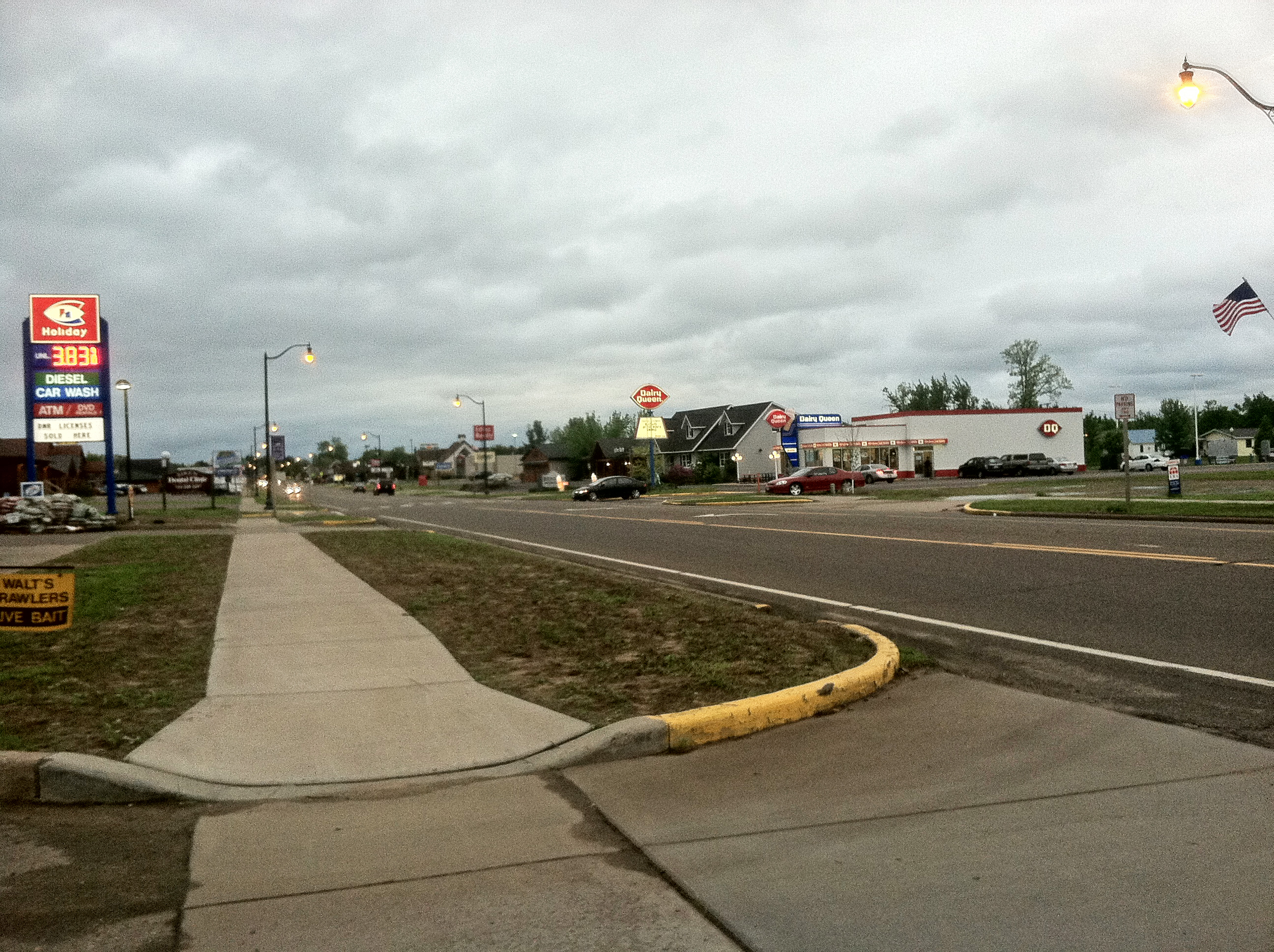 Siren, WI